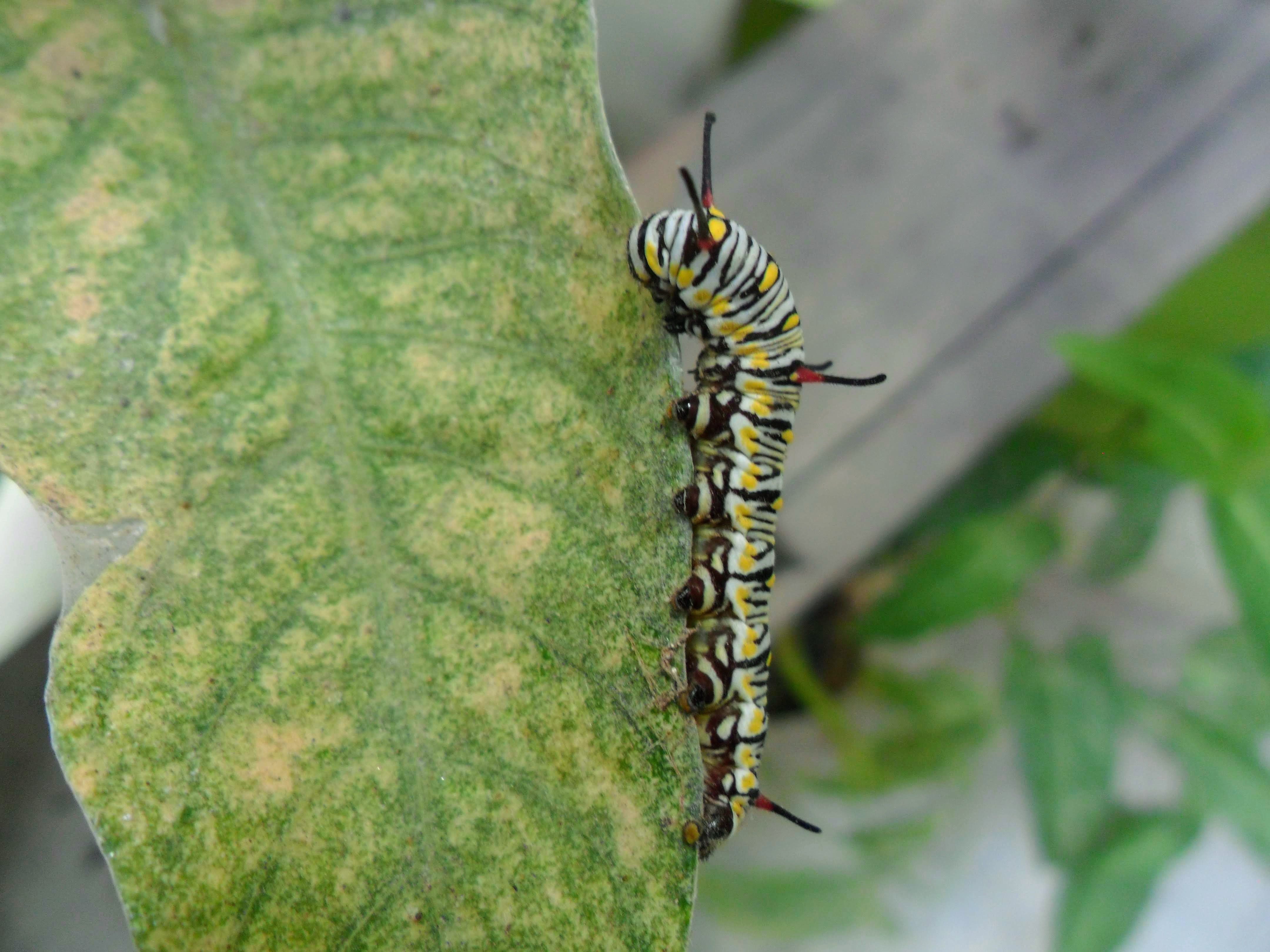 Danaus_chrysippus on ipomoea aquatica